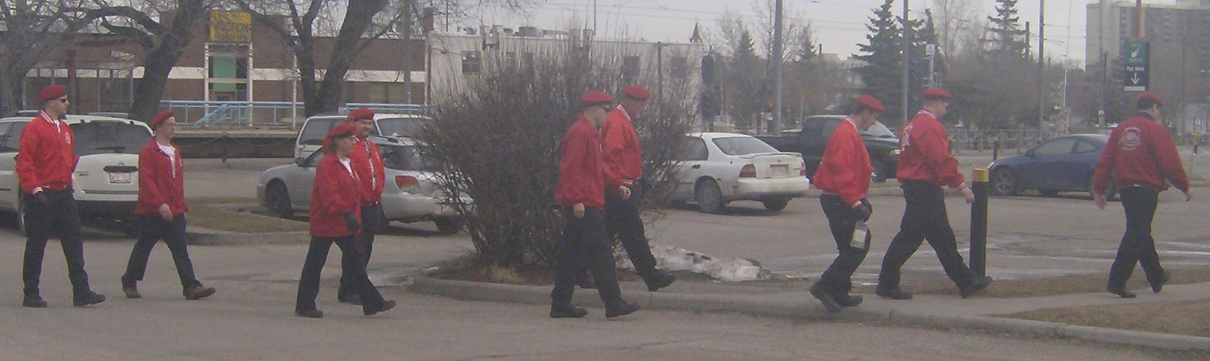 A group of Guardian Angels walking in Calgary, Alberta, Canada. This group is in the parking lot opposite the w:3 Street Southeast (C-Train) platform. This image has been cropped, to exclude everybody, except those wearing the GA uniform.